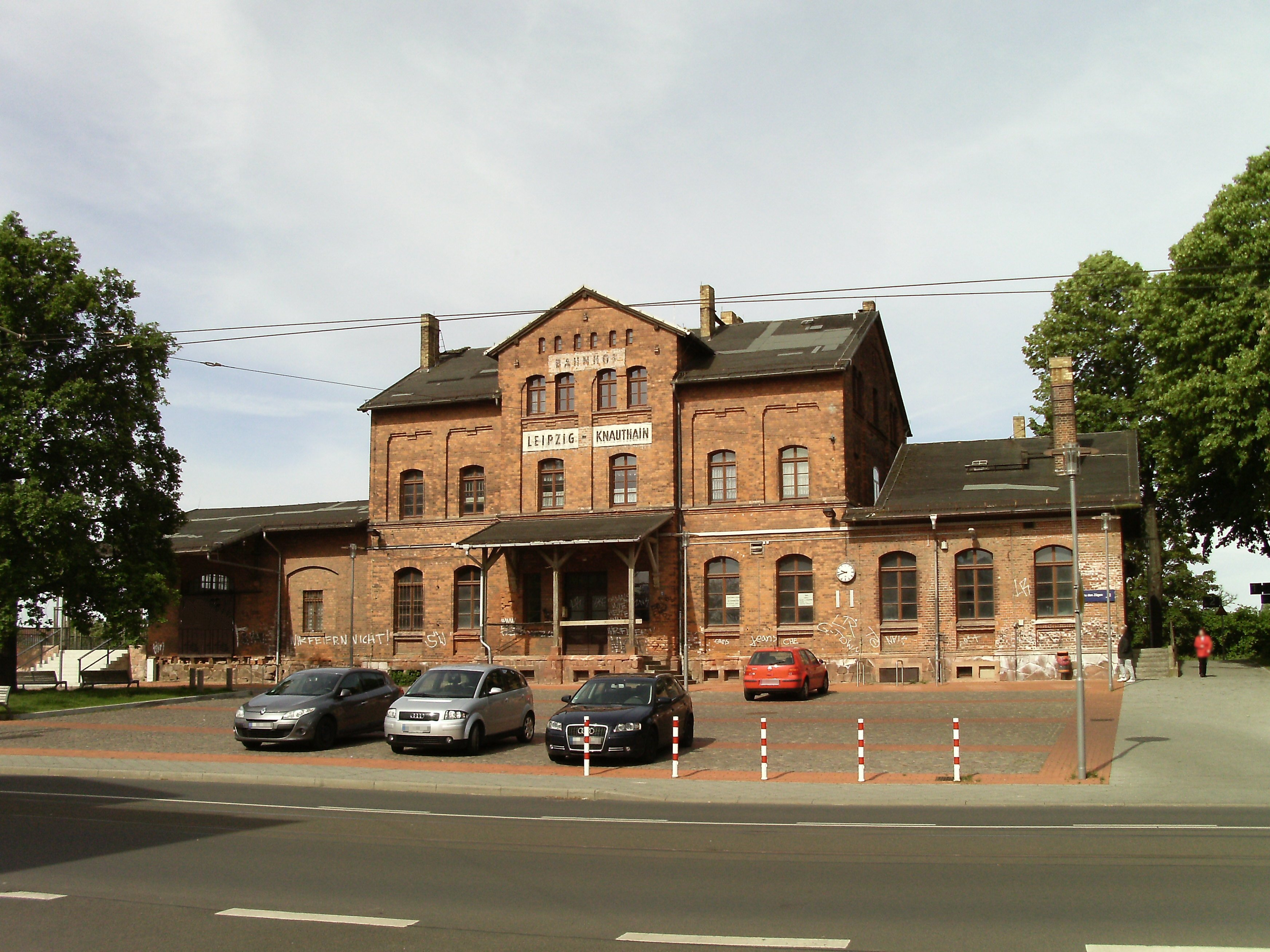 Leipzig-Knauthain train station at the Leipzig-Gera railway line